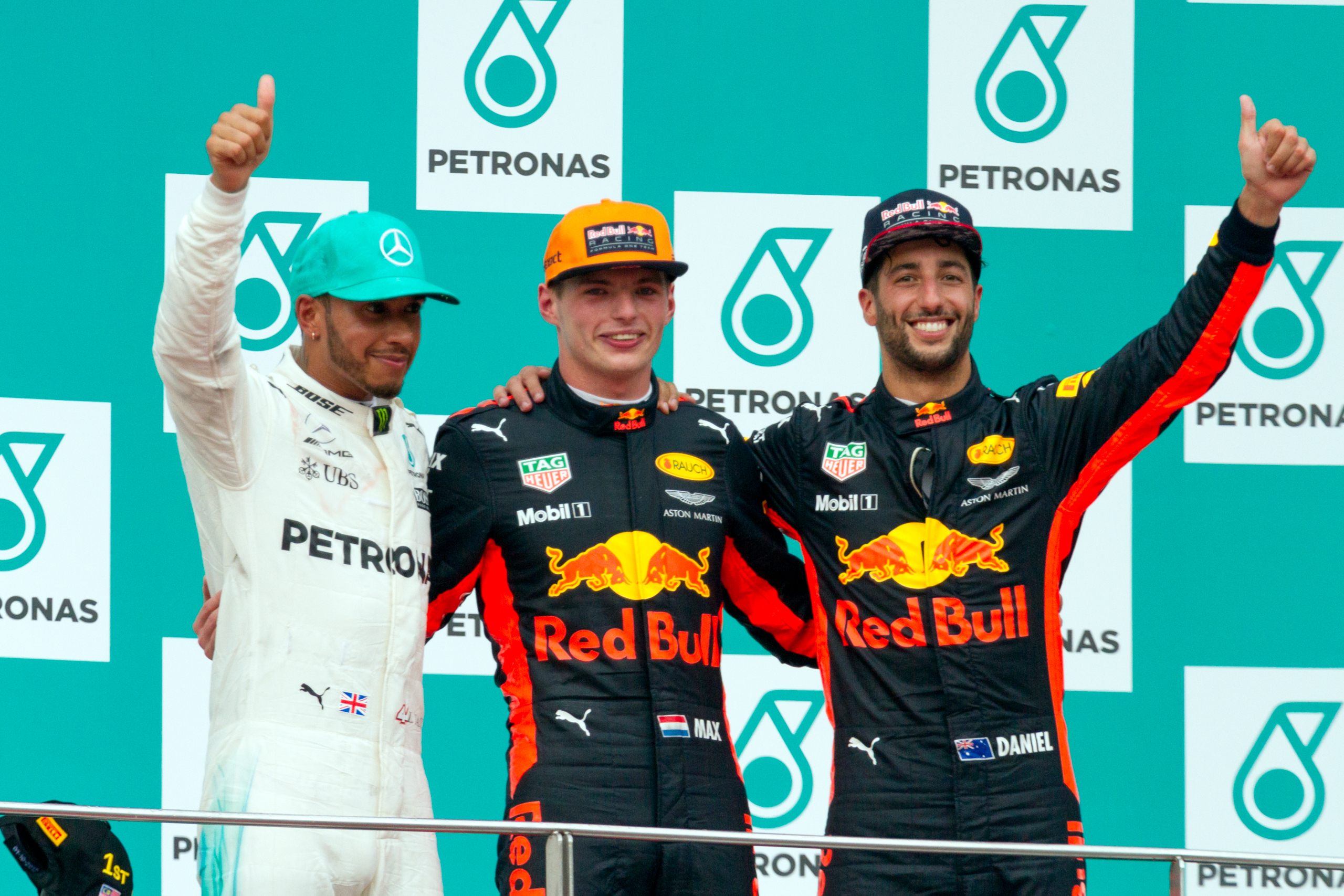 Formula One 2017 Rd.15 Malaysian GP: From left to right, Lewis Hamilton (runner-up, Mercedes, Max Verstappen (winner, Red Bull), and Daniel Ricciardo (3rd place, Red Bull).)